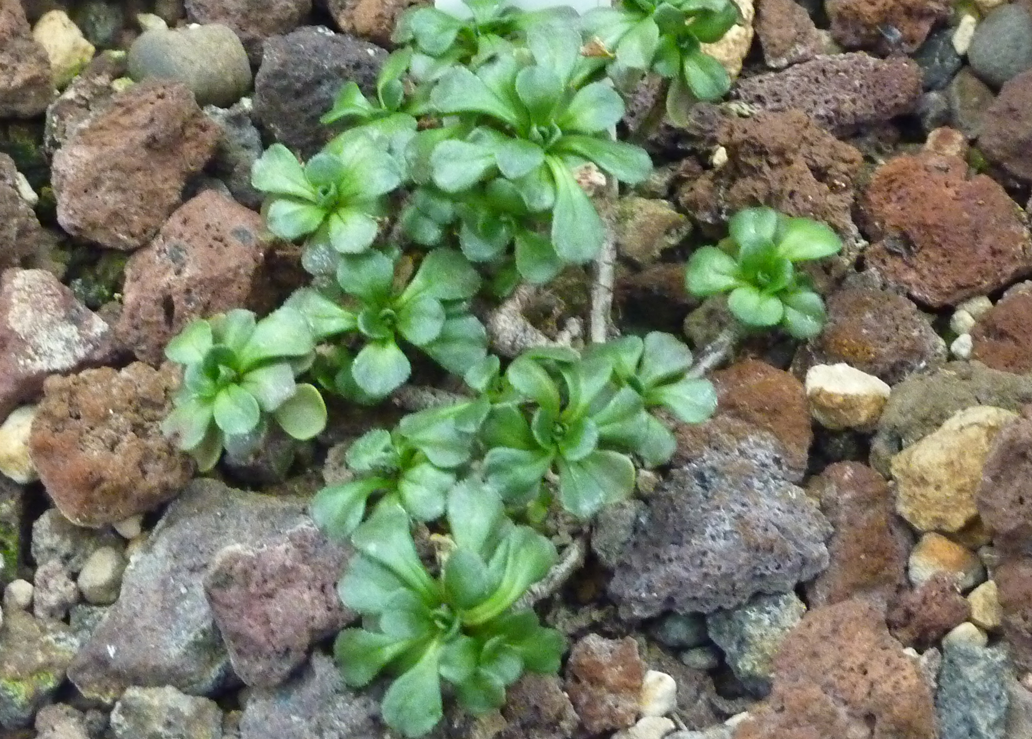 Aeonium spathulatum in the Sukkulentensammlung Zürich